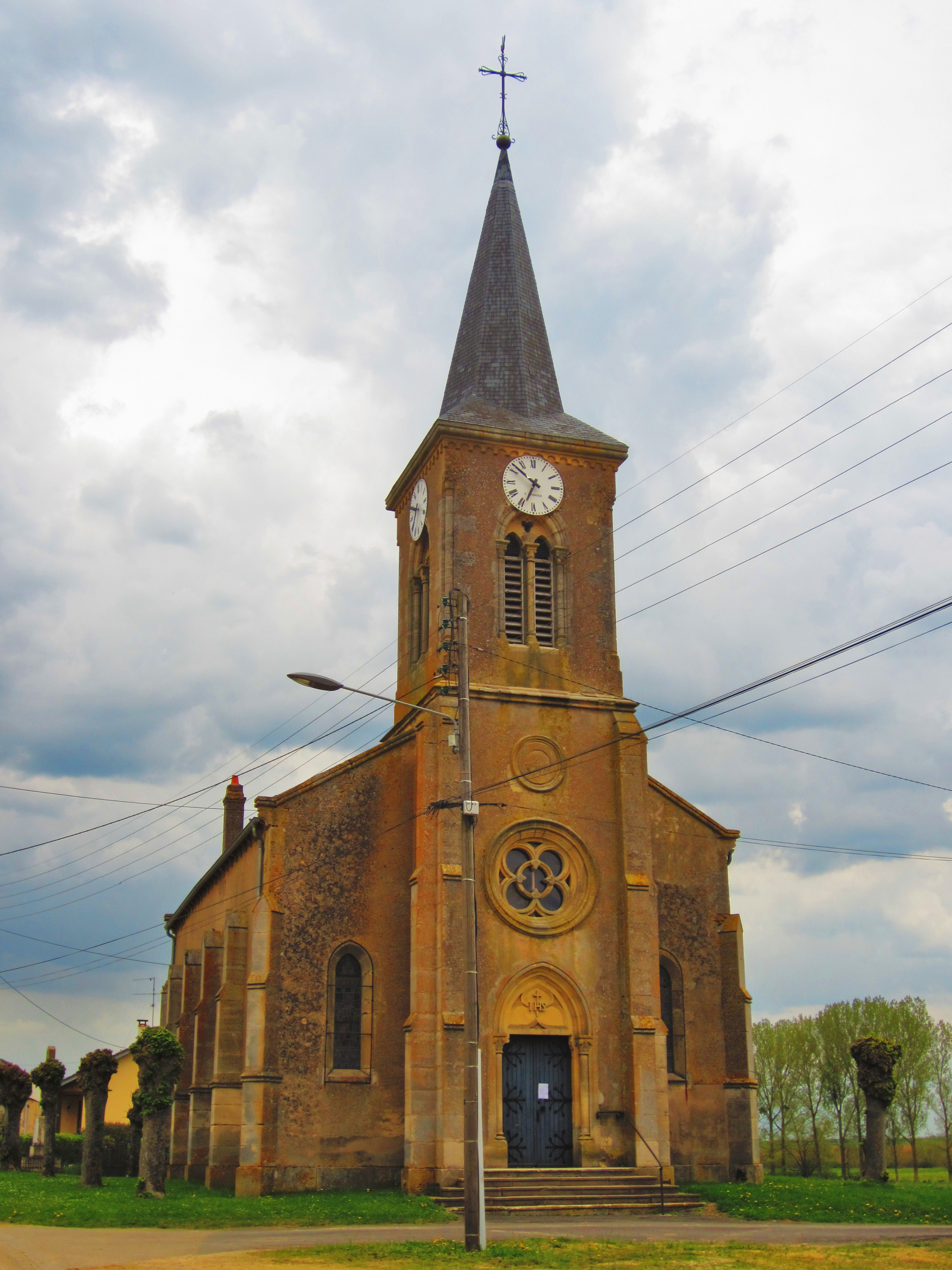 Latour Woevre church